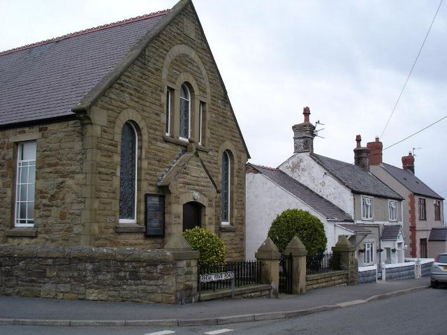 Pen-y-ffordd. Church and cottages in the centre of the village